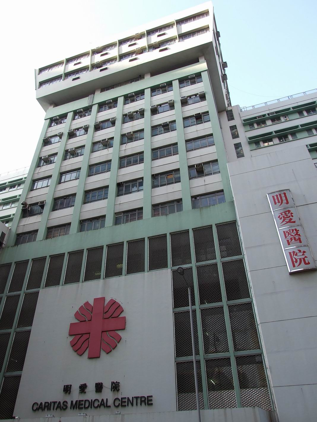 Caritas Medical Centre